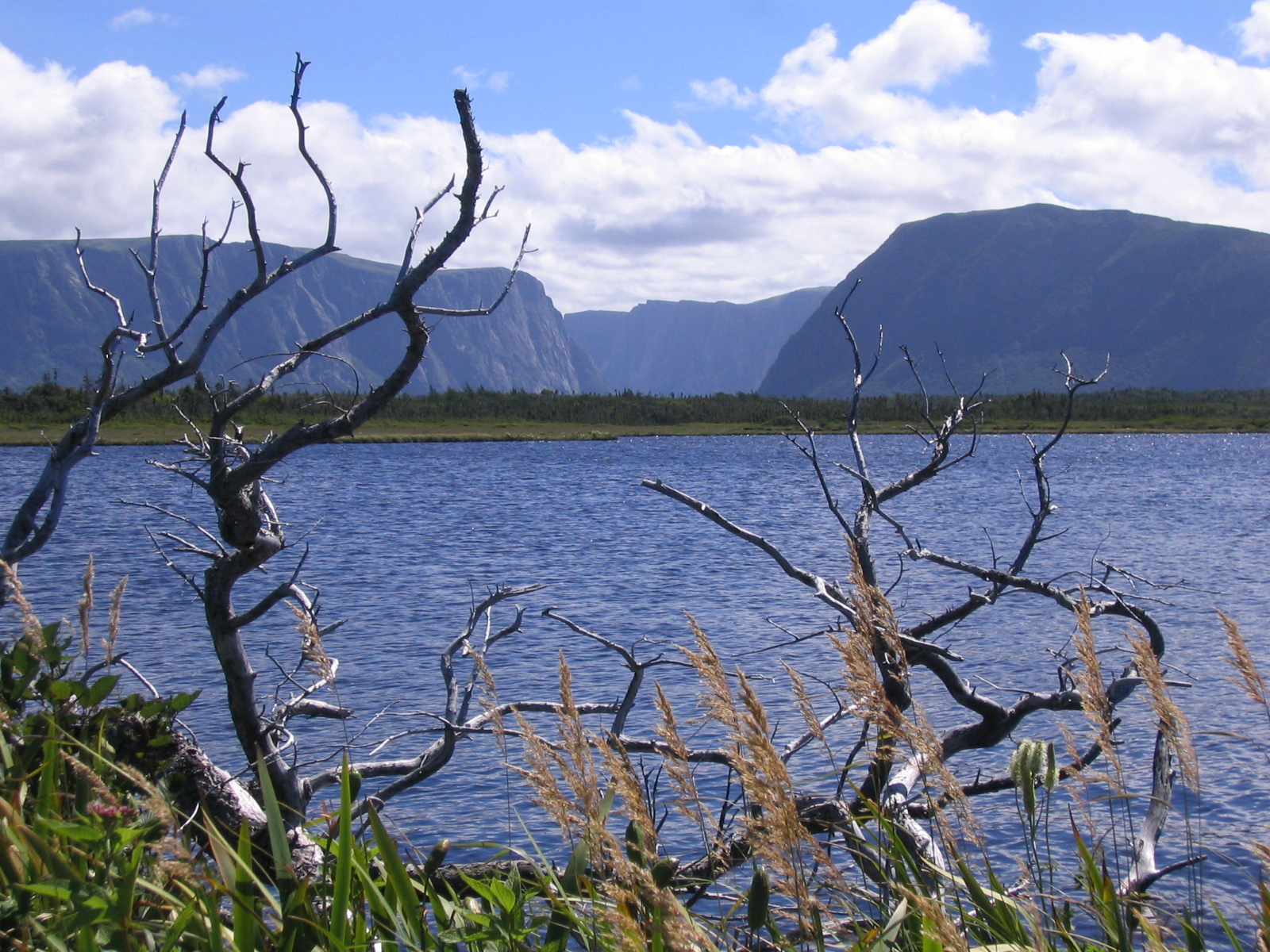 Gros Morne National Park, Western Brook Pond